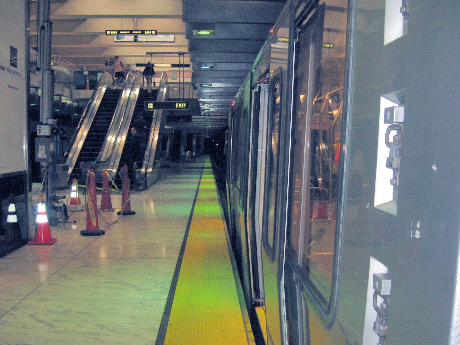 Embarcadero Station's inbound platform. To the right is an empty Muni Breda car.